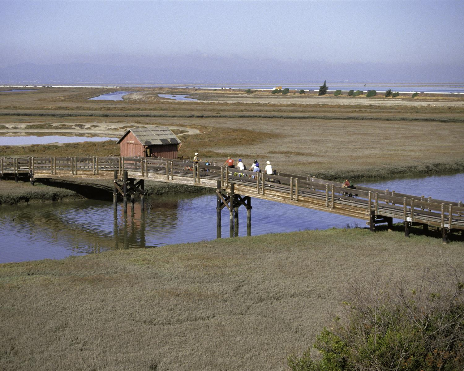 Don Edwards San Francisco Bay National Wildlife Refuge, Newark, California: Hikers and bikers can get close-up looks at a variety of birds and other wildlife from the 30+ miles of trails at San Francisco Bay Refuge. This refuge has more land below water than above it and is home to species as diverse as harbor seals and salt-marsh harvest mice, peregrine falcons and pelicans. During spring and fall migrations, shorebirds may number up to one million, waterfowl around 700,000, and wading birds about 30,000. San Francisco Bay is the first urban refuge in the system and has the largest public use program in the country.